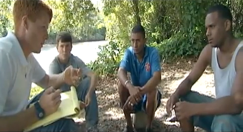 Business Development Volunteer Joe Kennedy assists local river guides as they form a business association involved in guiding tourists through a popular waterfall site in Dominican Republic.